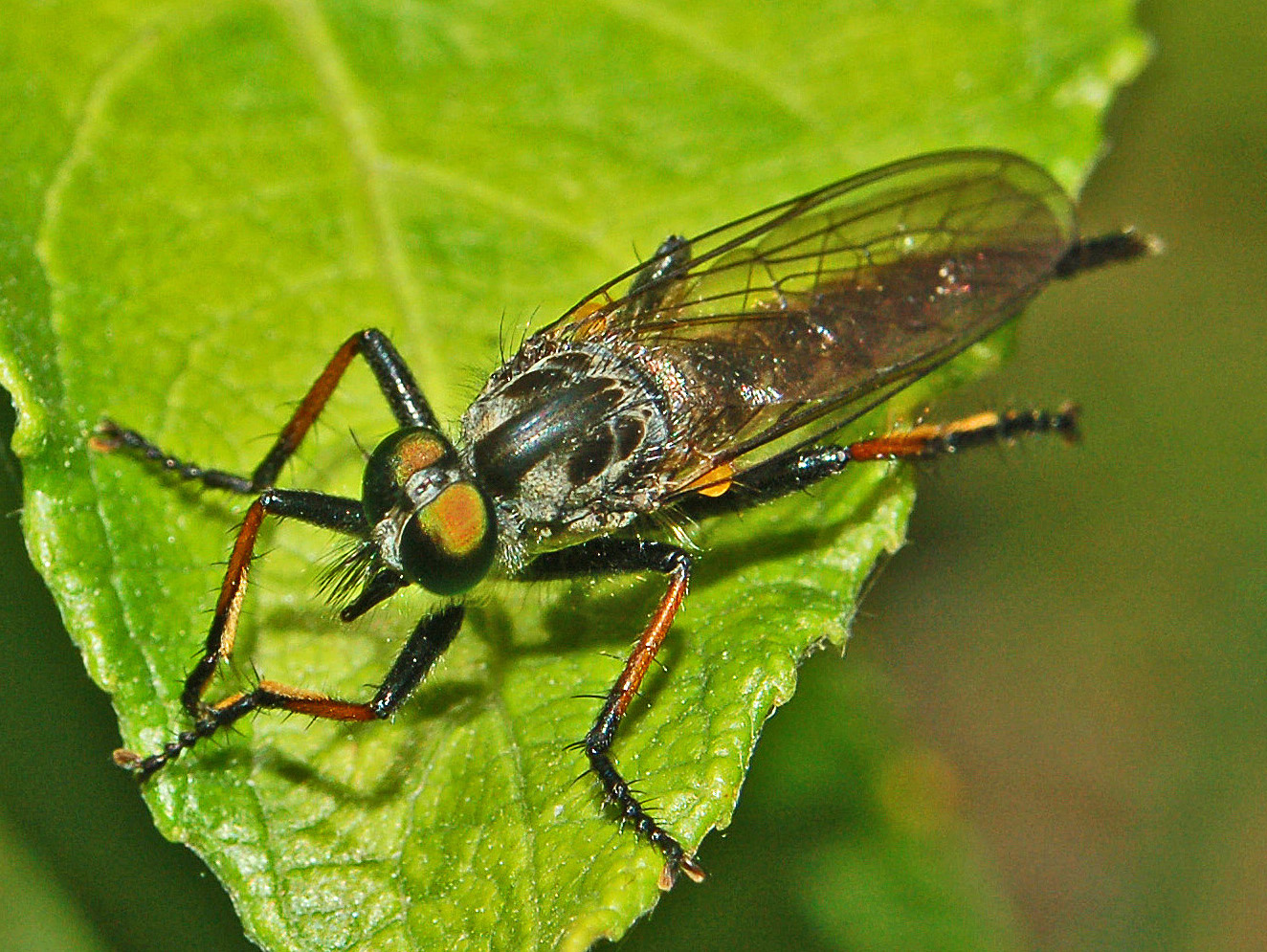 Neoitamus cyanurus. Female. Argentera Valley, Turin, Italy